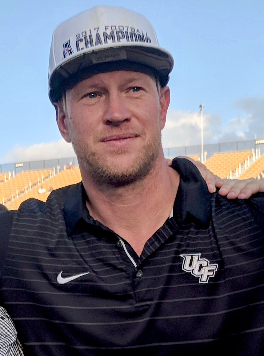 Scott Frost after winning the 2017 AAC Championship, finishing the perfect 2017 UCF Knights season